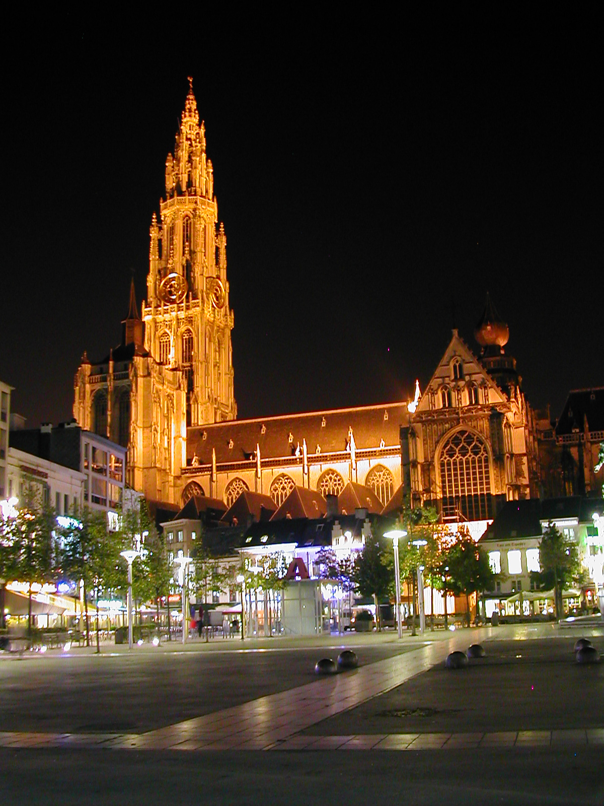 Antwerp cathedral by night